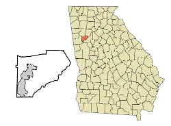 This map shows the unincorporated area, Winston, in Douglas County, Georgia, highlighted in red. It was edited using GIMP using an original image created with a custom script with US Census Bureau data and modified with Inkscape.